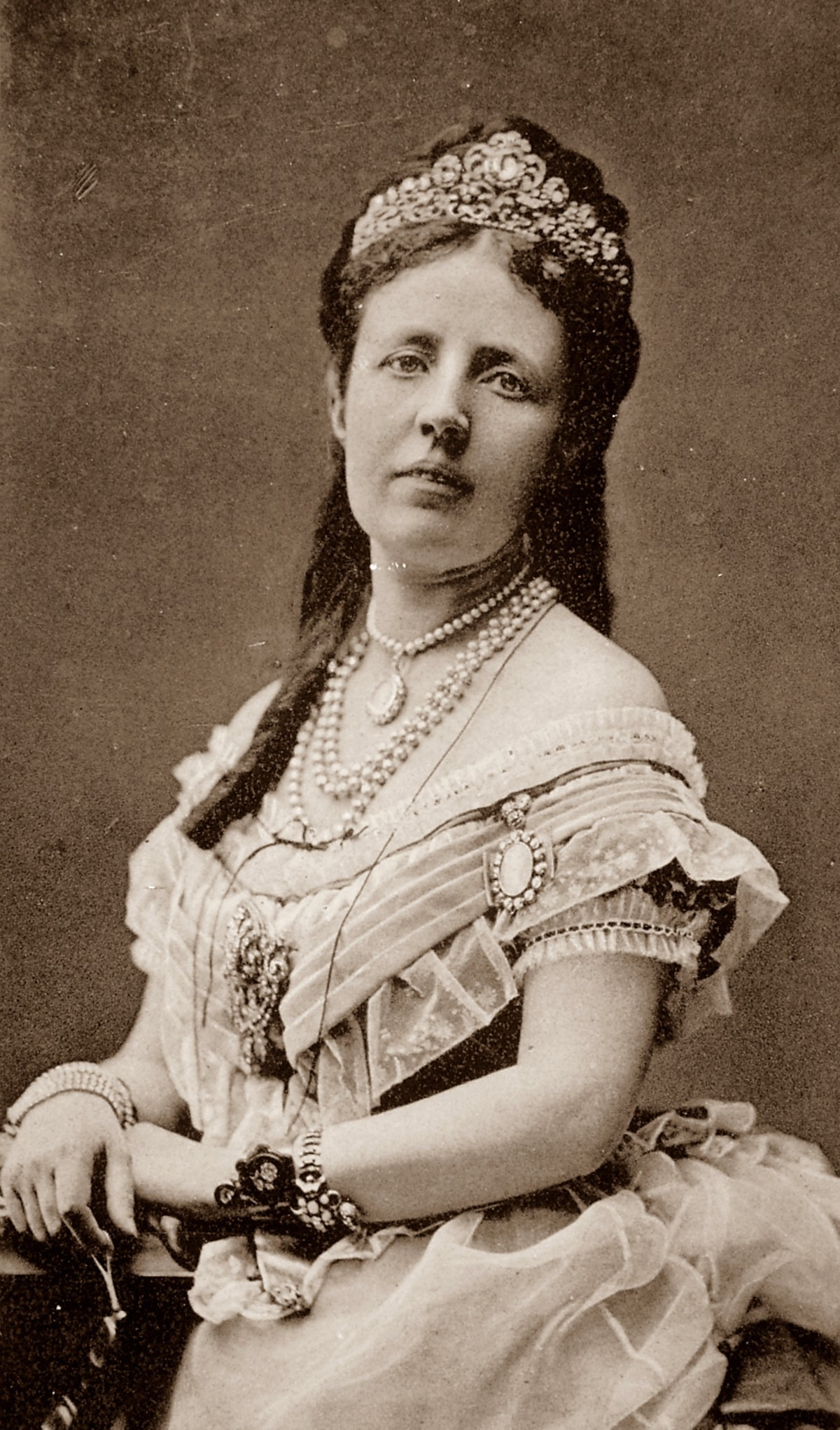 His Majesty the Queen of Sweden, Sofia of Nassau